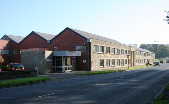 Cinetic Landis-Lund Grinding, Eastburn, Yorkshire The road here used to be the A650 Bradford to Skipton trunk, but about twenty years ago, a new dual-carriageway bypassed this part, and it is now reduced to the status of a B road.